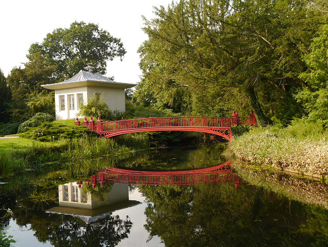 Red Bridge and the Chinese House, Shugborough